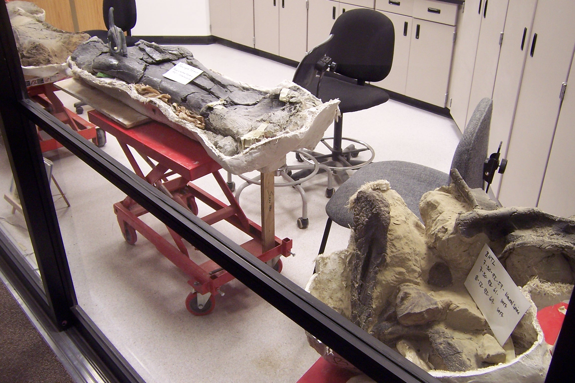 Fossil preparation room visible to visitors at the Museum of the Rockies, Bozeman, Montana.